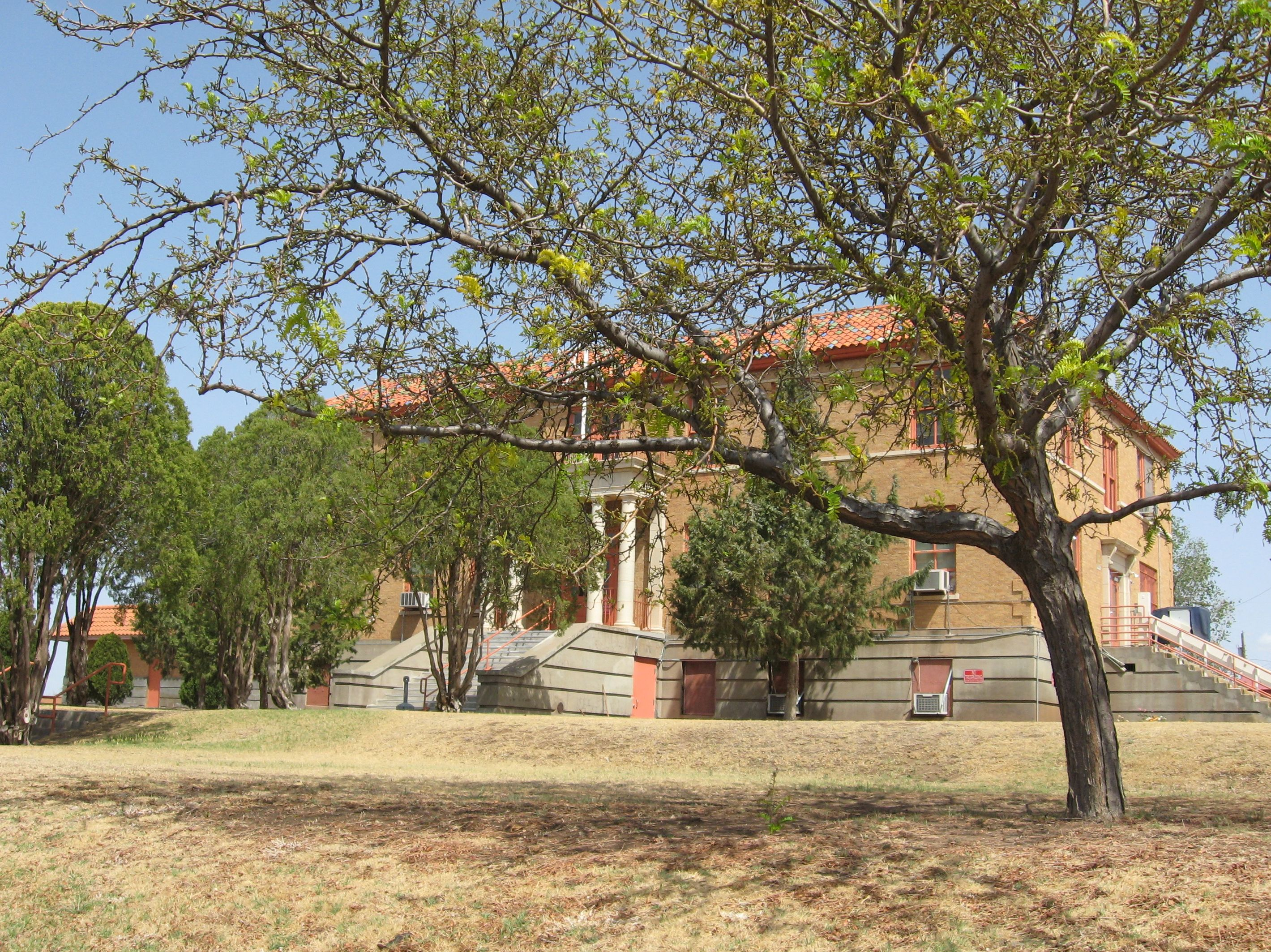 De Baca County, New Mexico Court House